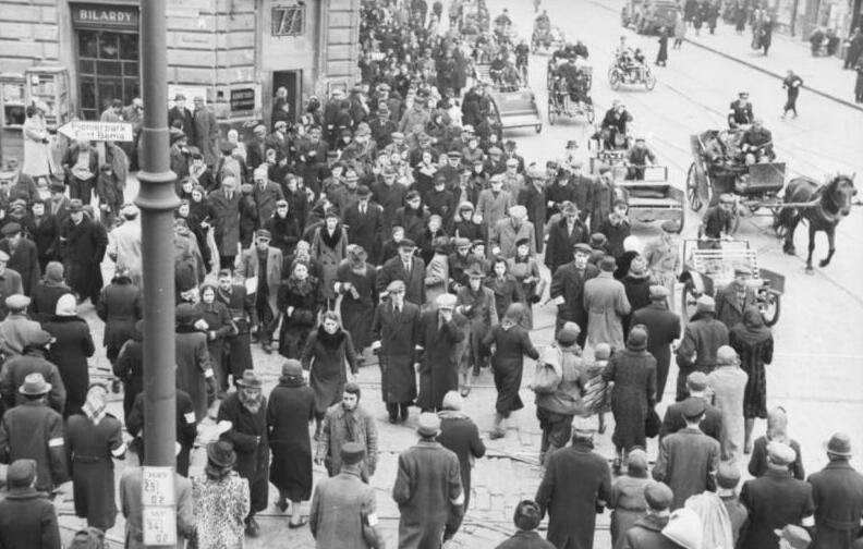 Warsaw Ghetto: Żelazna street looking North from Chłodna street. On the left buildings Żelazna 77/Chłodna 28 and Żelazna 79.